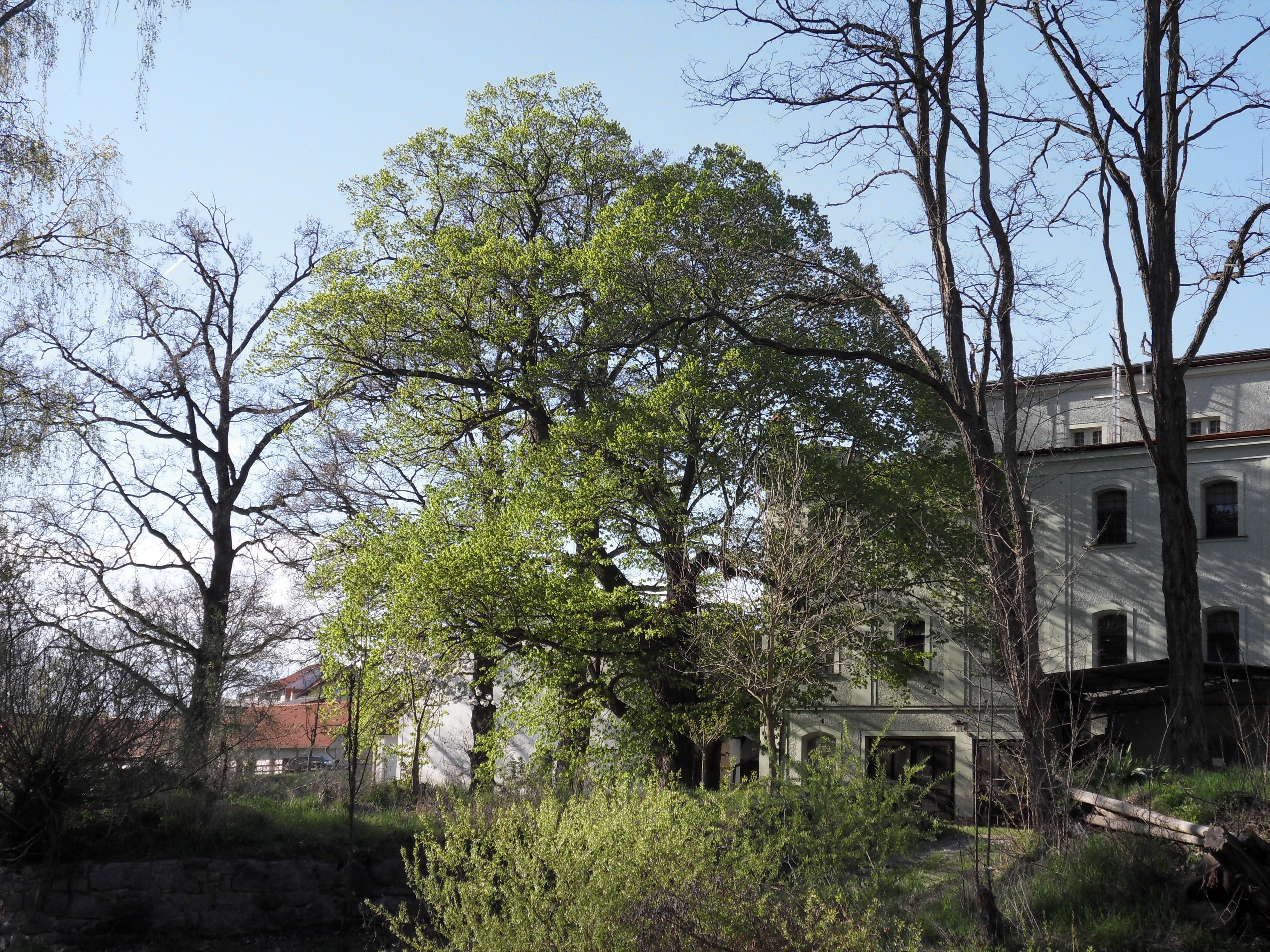 Large-leaved Lime (Tilia platyphyllos) by the mill in Koterov, District Plzeň-město, Czech Republic